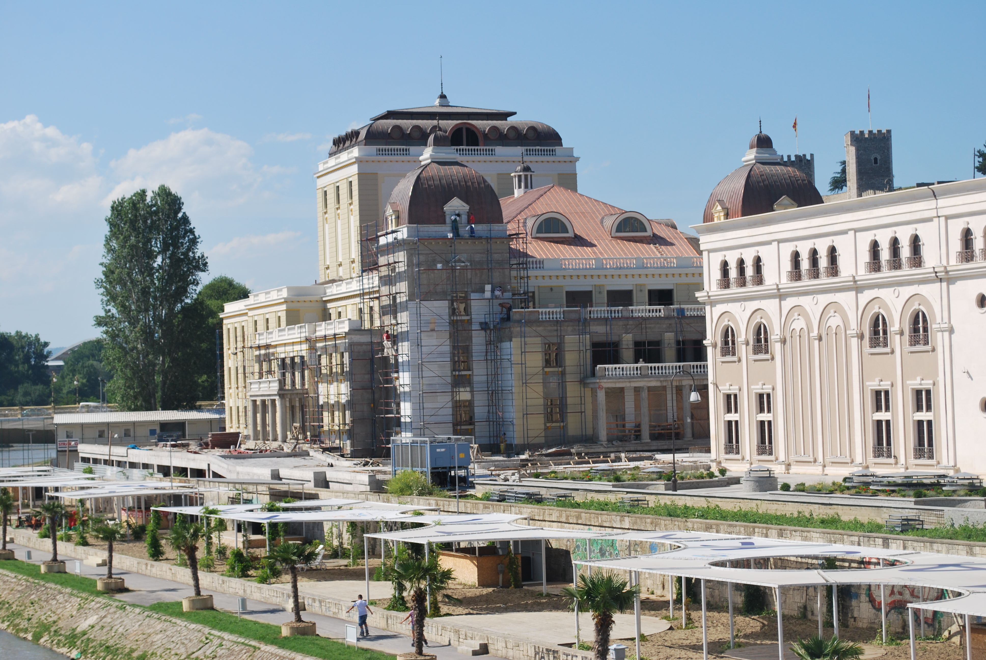 Skopje, Macedonia